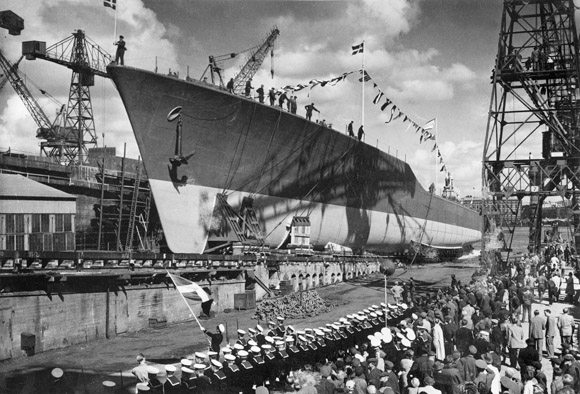 The hull of the Swedish destroyer HMS Halland being launched.